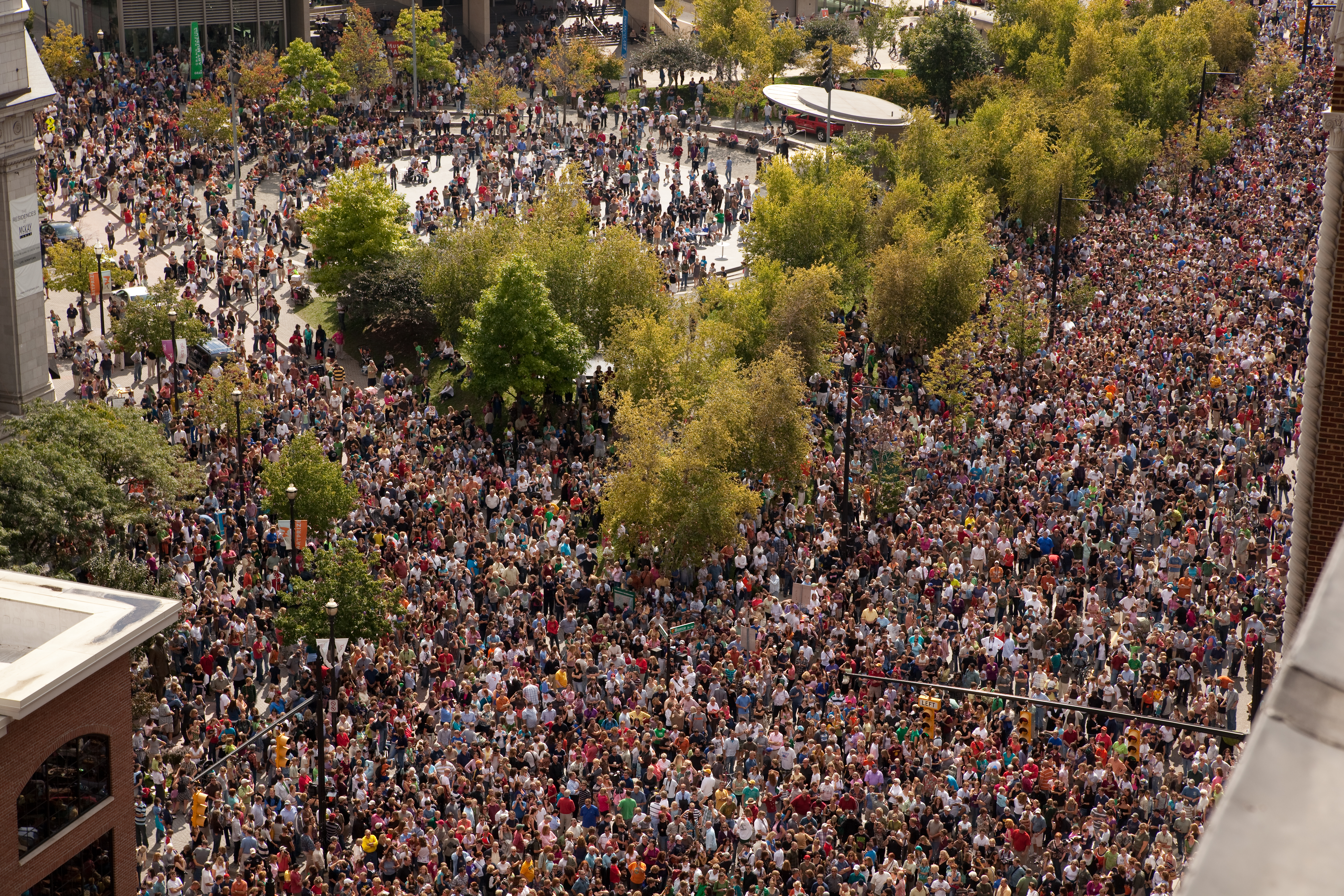 Thousands of visitors in downtown Grand Rapids, Michigan for an ArtPrize event